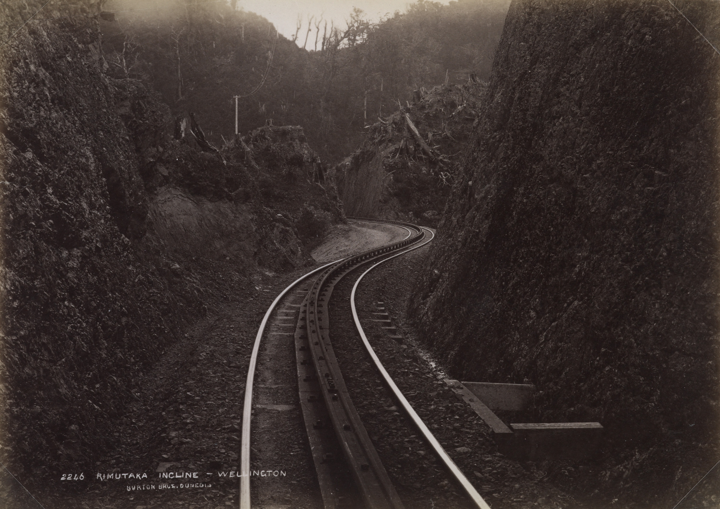 Rimutaka Incline Fell railway Featherston to Cross Creek New Zealand